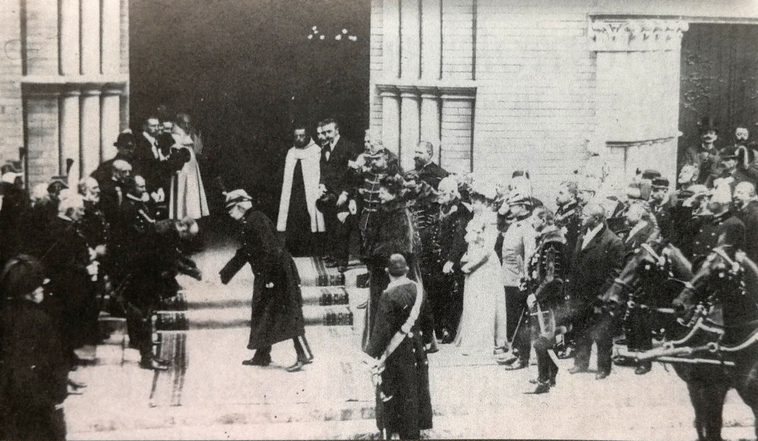 Dedication of Carmelite Church on Huba street